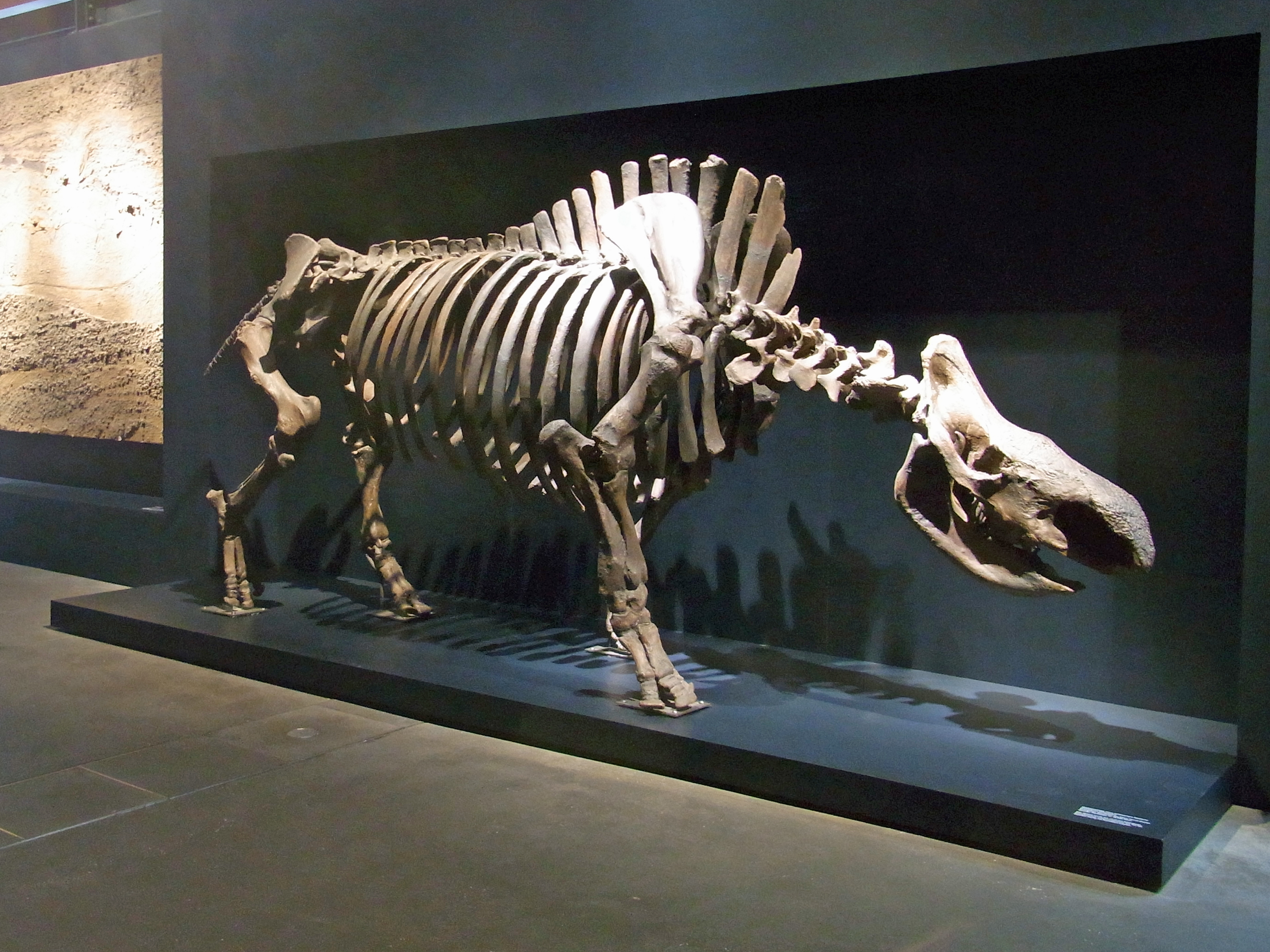 Ruhr Museum at Zollverein Coal Mine Industrial Complex